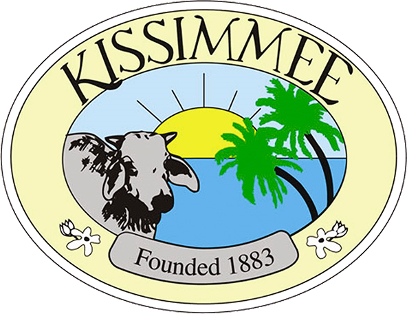 The official city seal of Kissimmee, Florida.